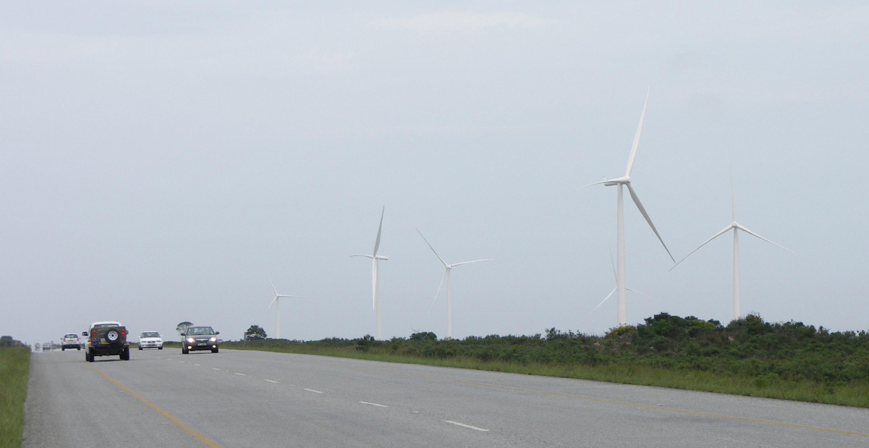 Portion of the Jeffreys Bay windfarm next to the N2 between Jeffreys Bay and Humansdorp, Eastern Cape, South Africa